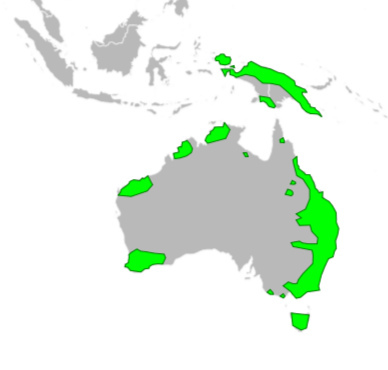 This is a range map created on inkscape that illustrates the ranges of the 6 species of quoll: Dasyurus albopunctatus Dasyurus geoffroii Dasyurus hallucatus Dasyurus maculatus Dasyurus spartacus Dasyurus viverrinus